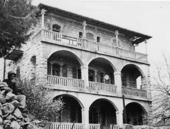 Katamon after Operation Yevusi